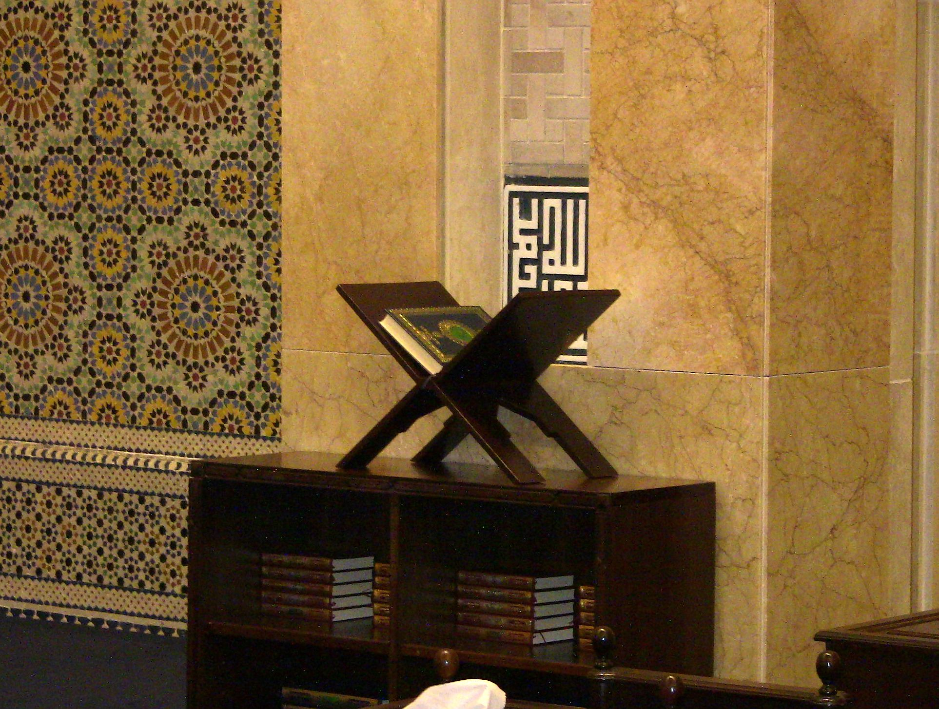 Quran with stand, Grand mosque in Kuwait